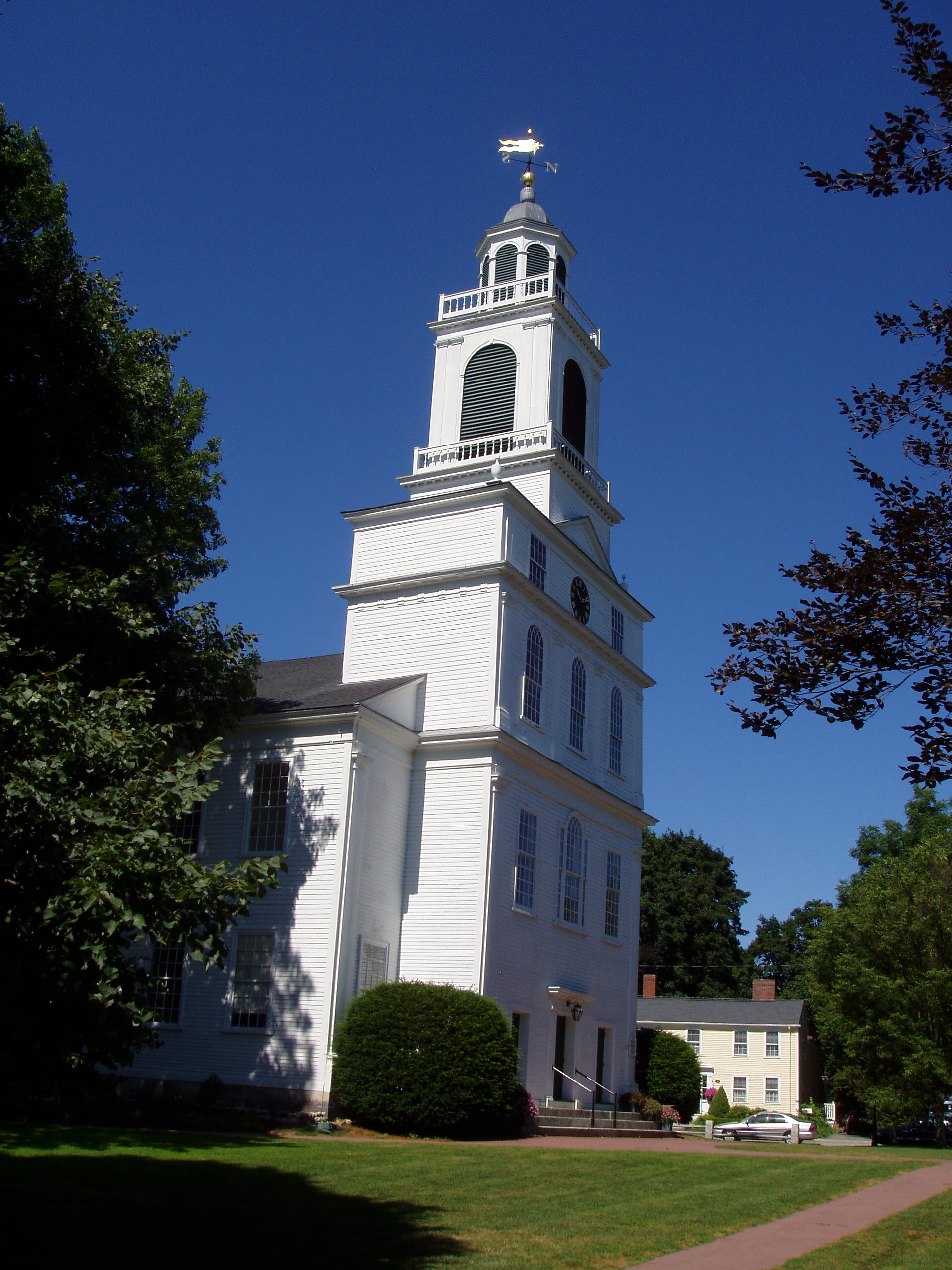 Meeting House of the First Parish Unitarian (exterior view). Bedford, Massachusetts. Society organized 1730, building erected 1816. Photograph taken by me, July 2005.